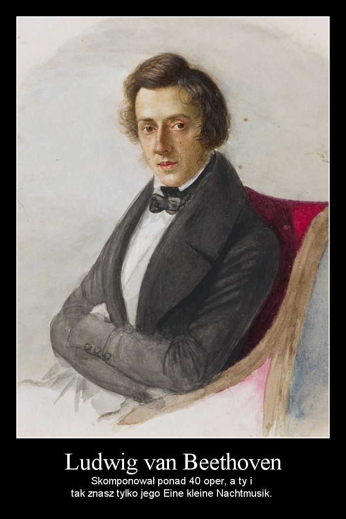 Example of a hanuszka, a type of polish internet meme